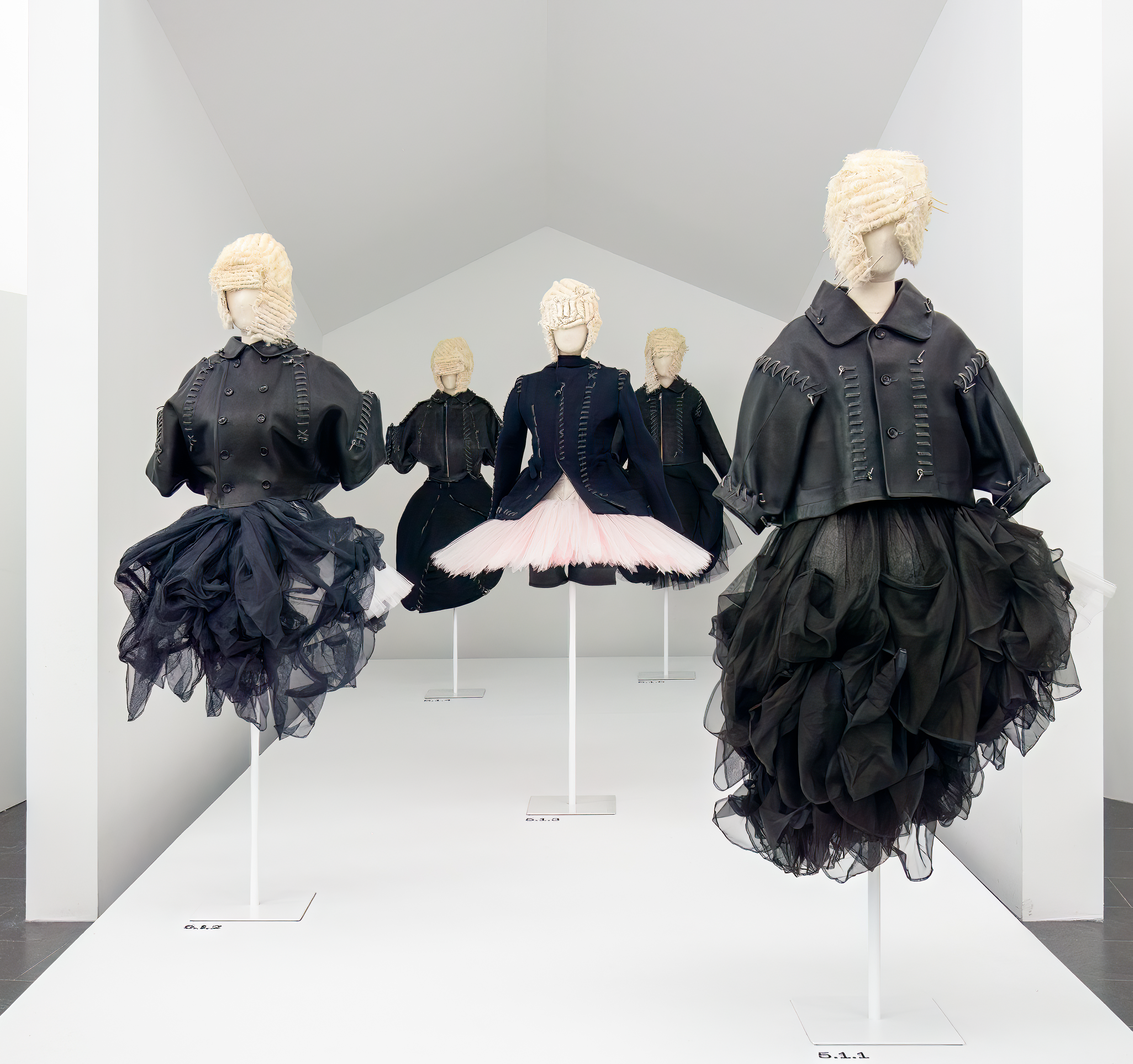 The Rei Kawakubo / Comme des Garcons Art of the In-Between show at the Met.